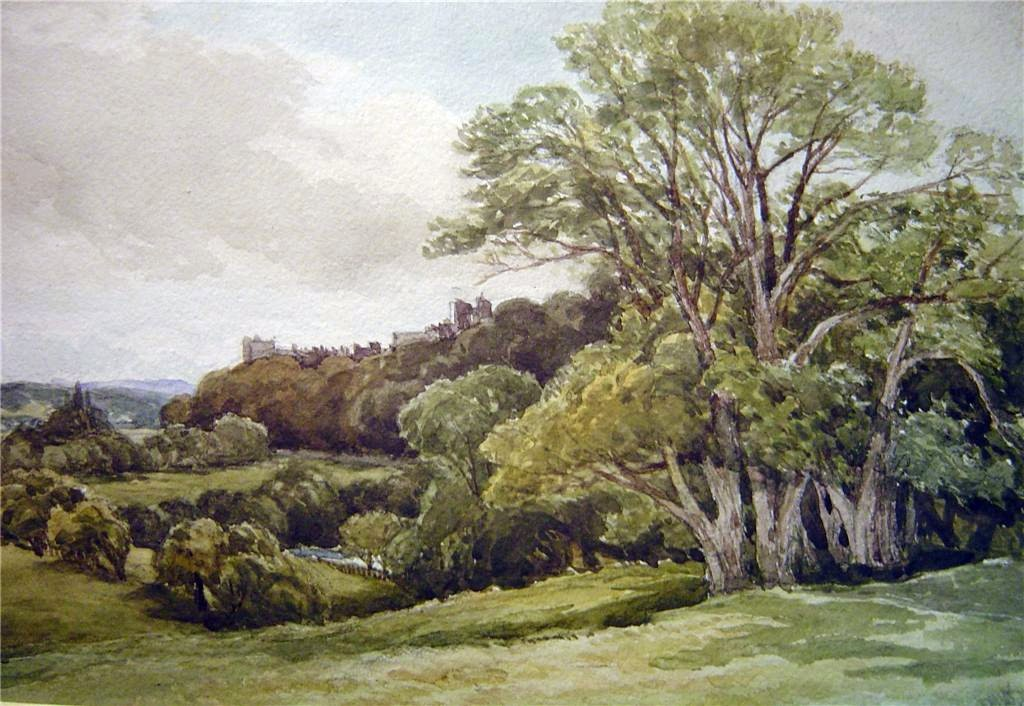 "Arundel Castle", 9" x 13.5", watercolour